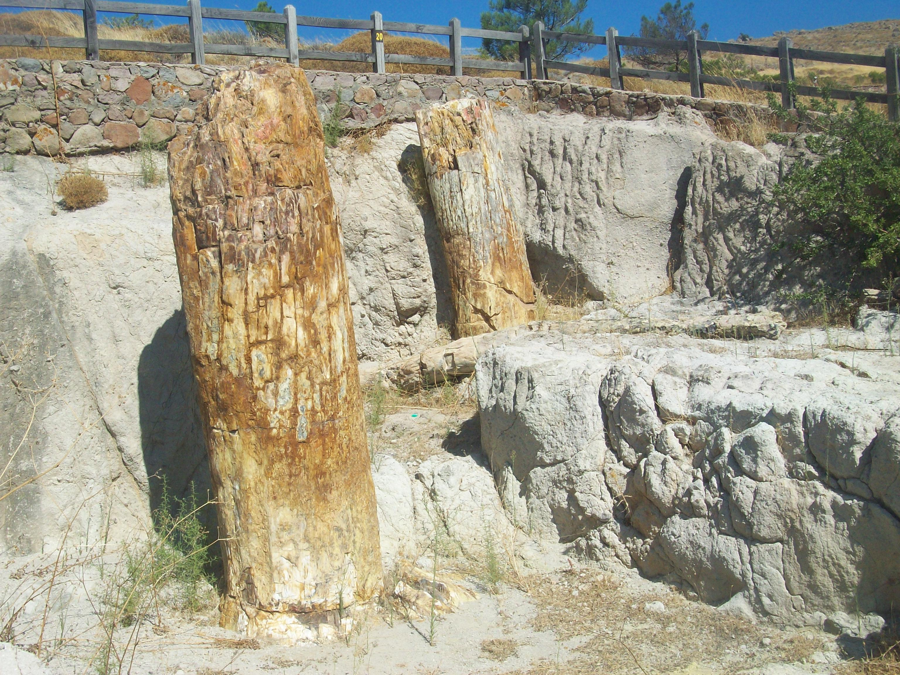 Trunks 20, 21 and 22 in the Petrified forest of Lesbos. Identified as Pinoxylon paradoxum. This is a photography of Natura 2000 protected area with ID GR4110003